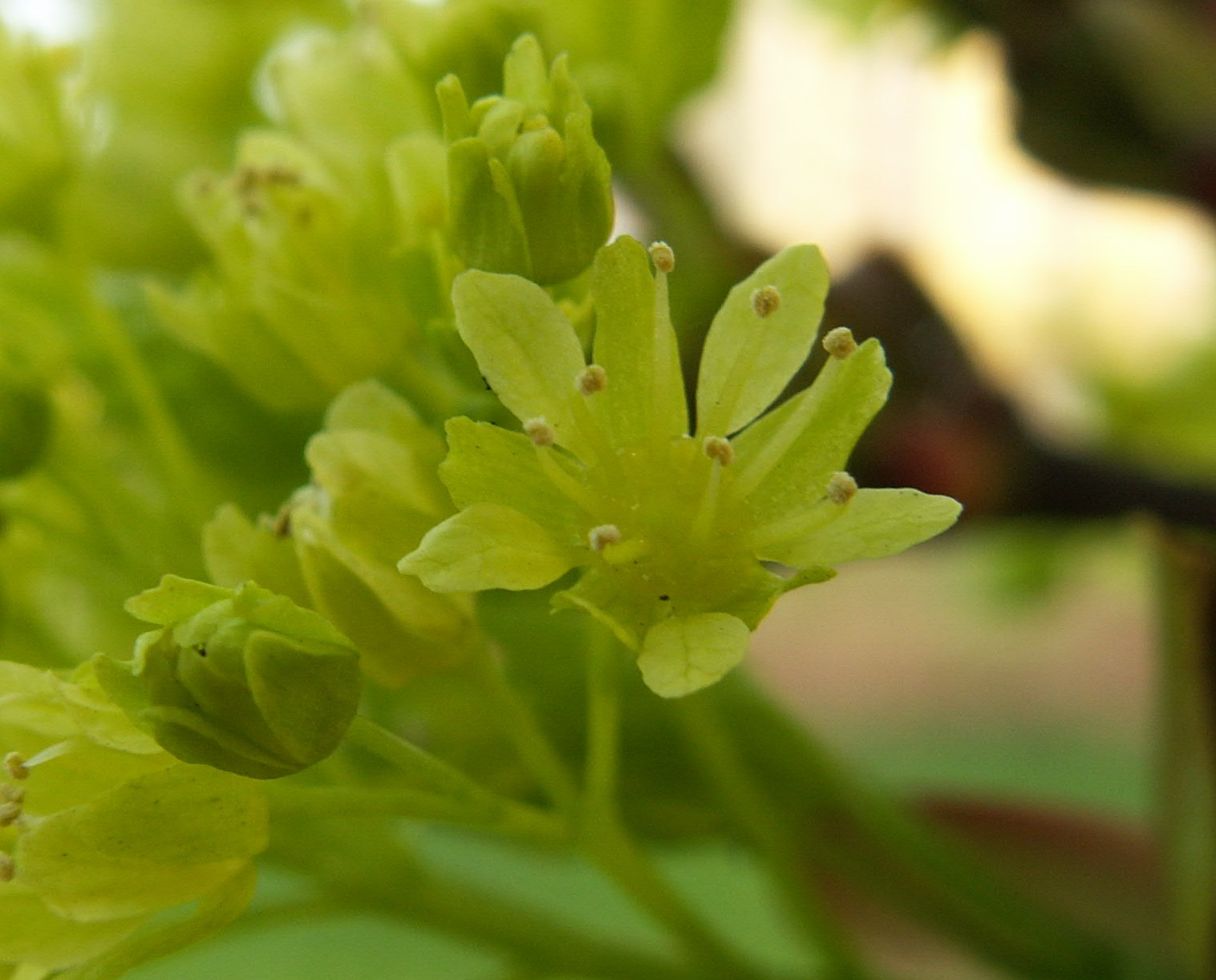 Acer platanoides, flower. Szczecin, NW Poland.